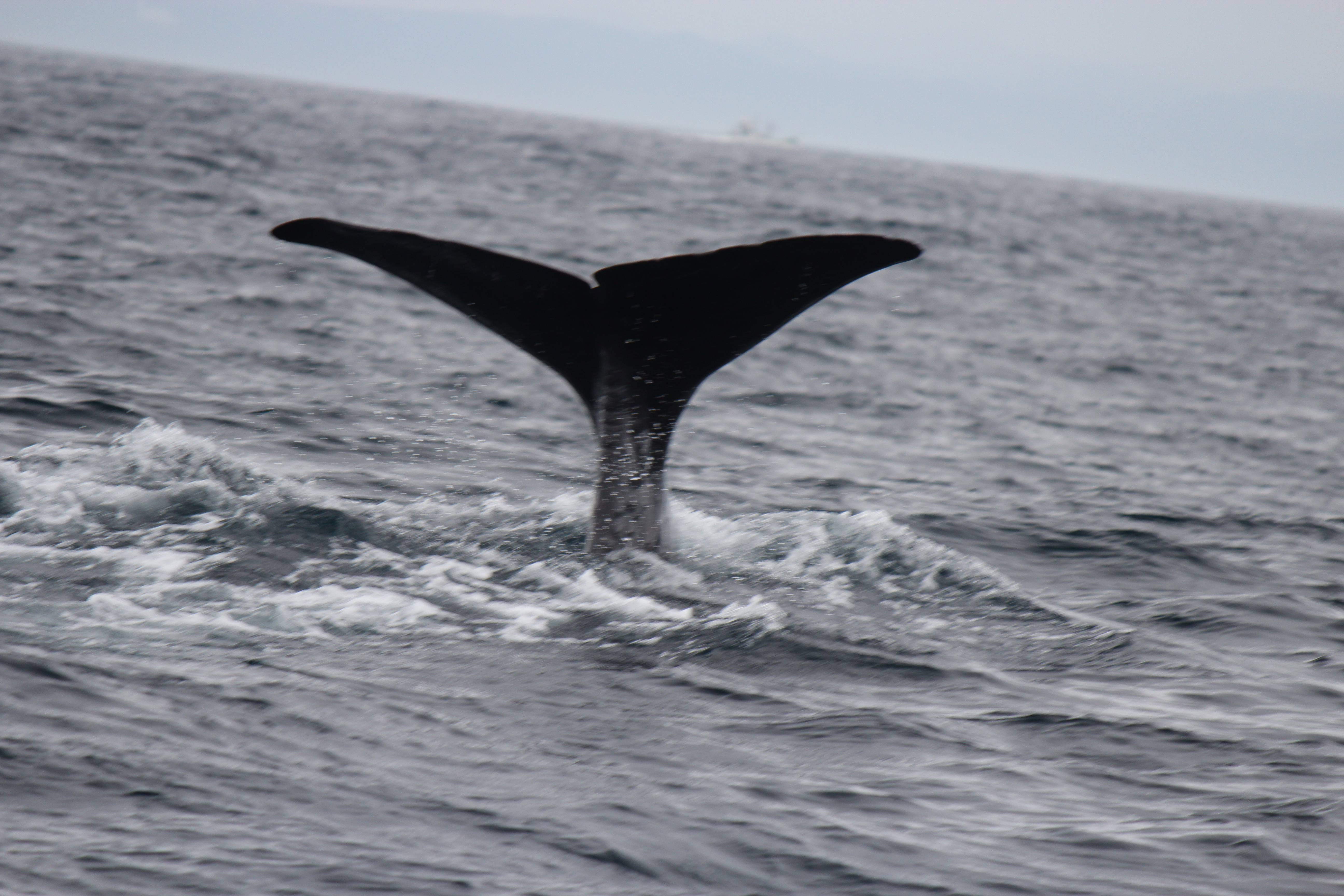 マッコウクジラ. Whale watching. I was so excited. :)